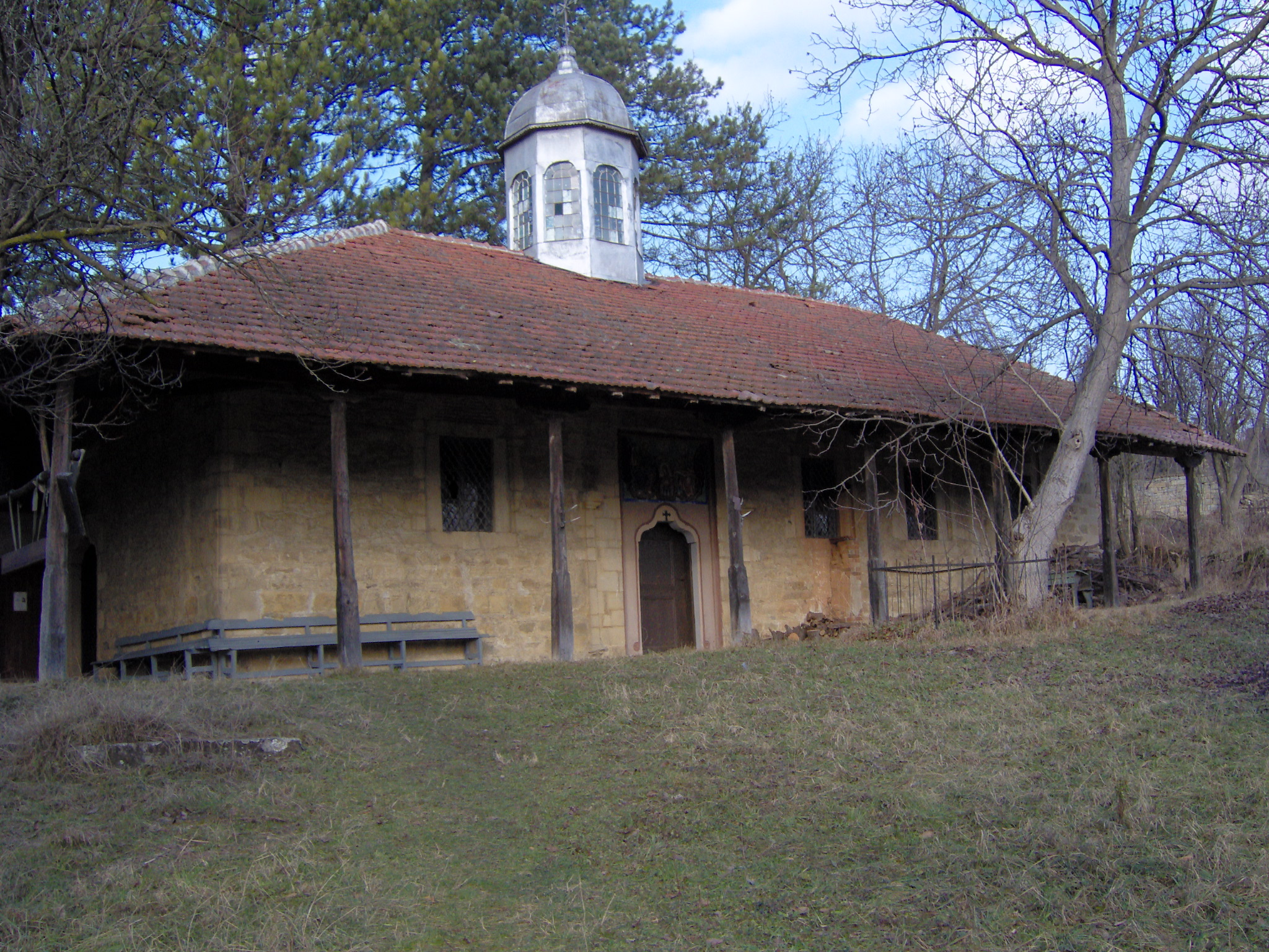 Church "Dormition" in village Gabene, Bulgaria